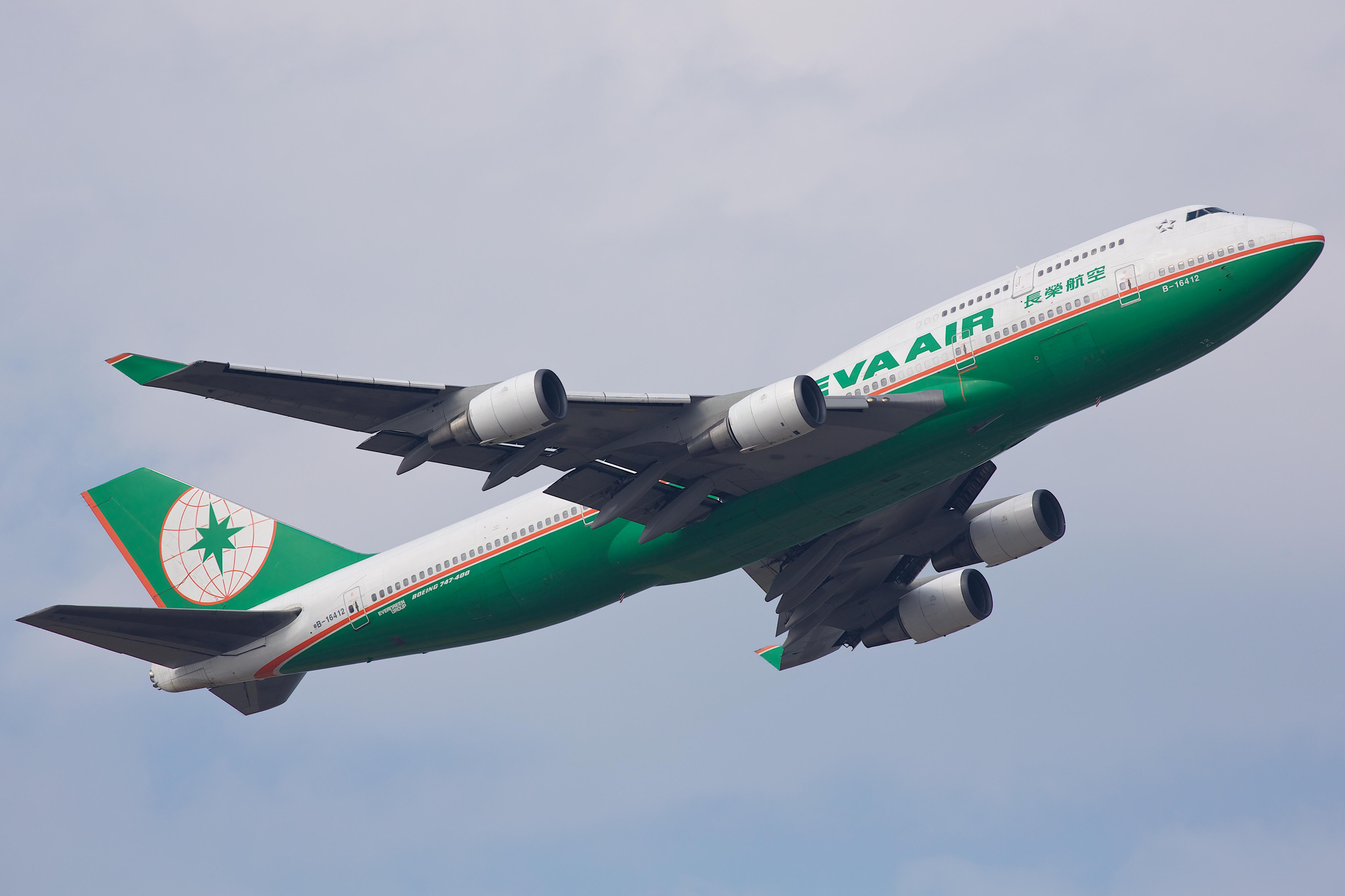 B-16412 | 747-45E | EVA Airways | TPE